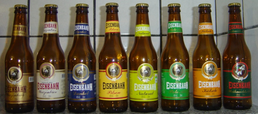 This picture was taken by myself from my private collection of bottles.